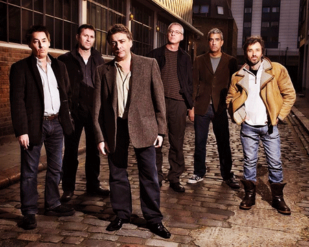 Happy Refugees Lineup in December 2011